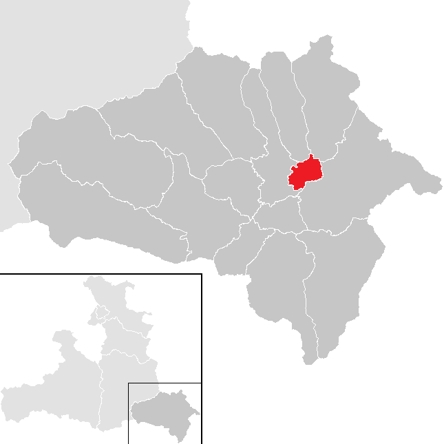 District Tamsweg